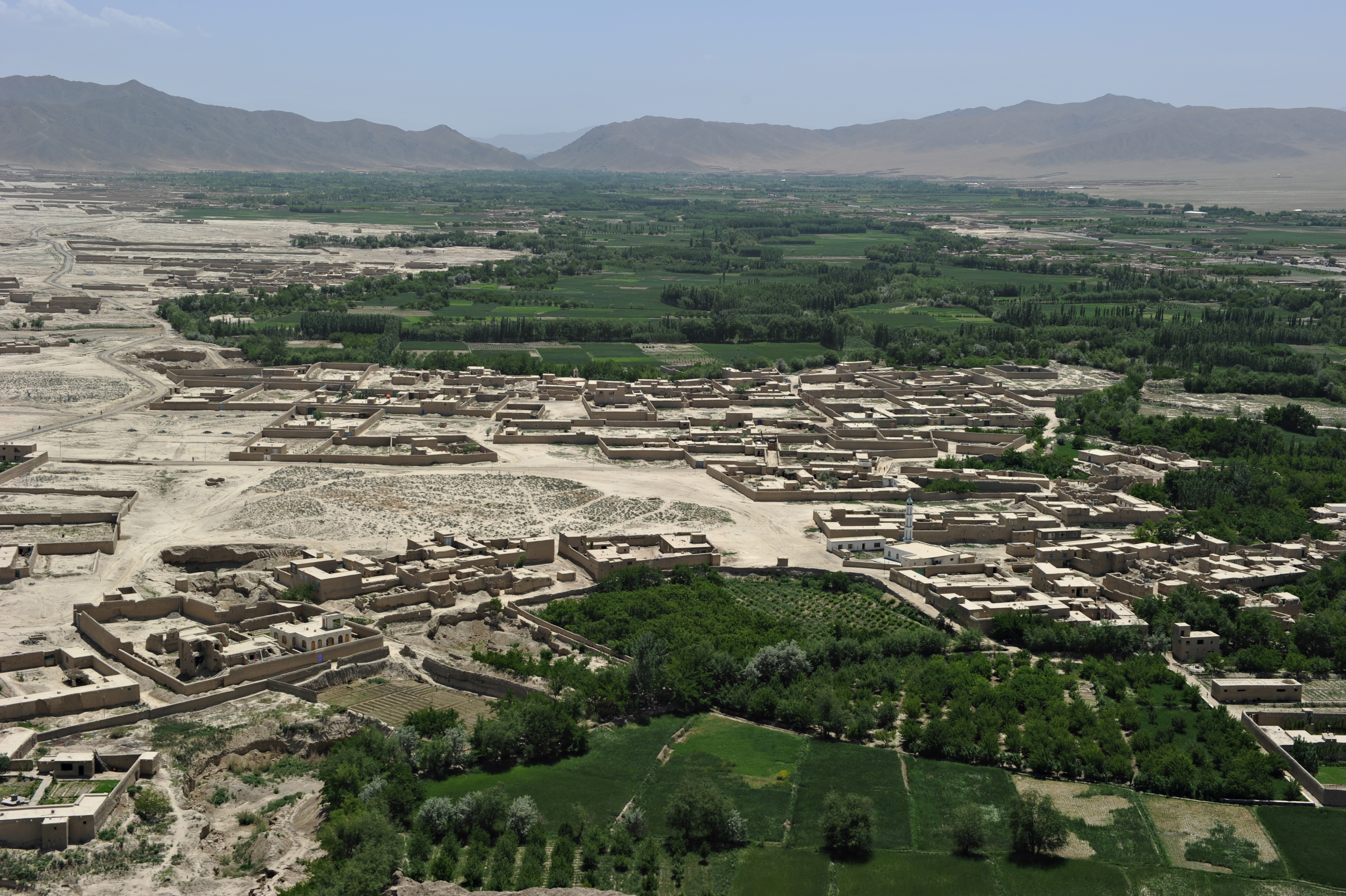 Mohammad Agha District, Logar Province, Afghanistan on Tuesday, May 17, 2011.